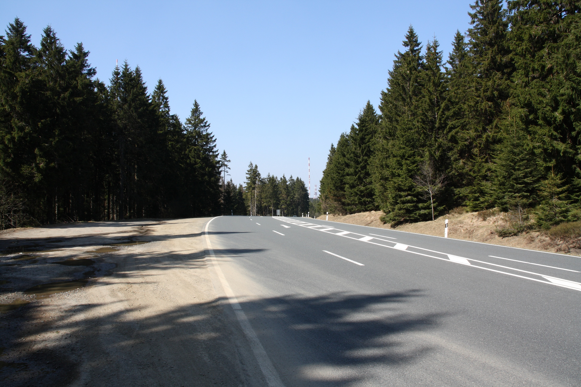 Federal road "B 4" at its highest point (c. 825 metres) between "Torfhaus" and "Oderbrück", view northwards (direction "Torfhaus")